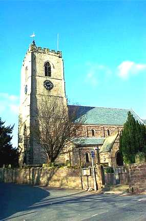 Spofforth, All Saints Church. This church is slightly to the west of centre on the southern boubdary of the O/S grid it occupies.